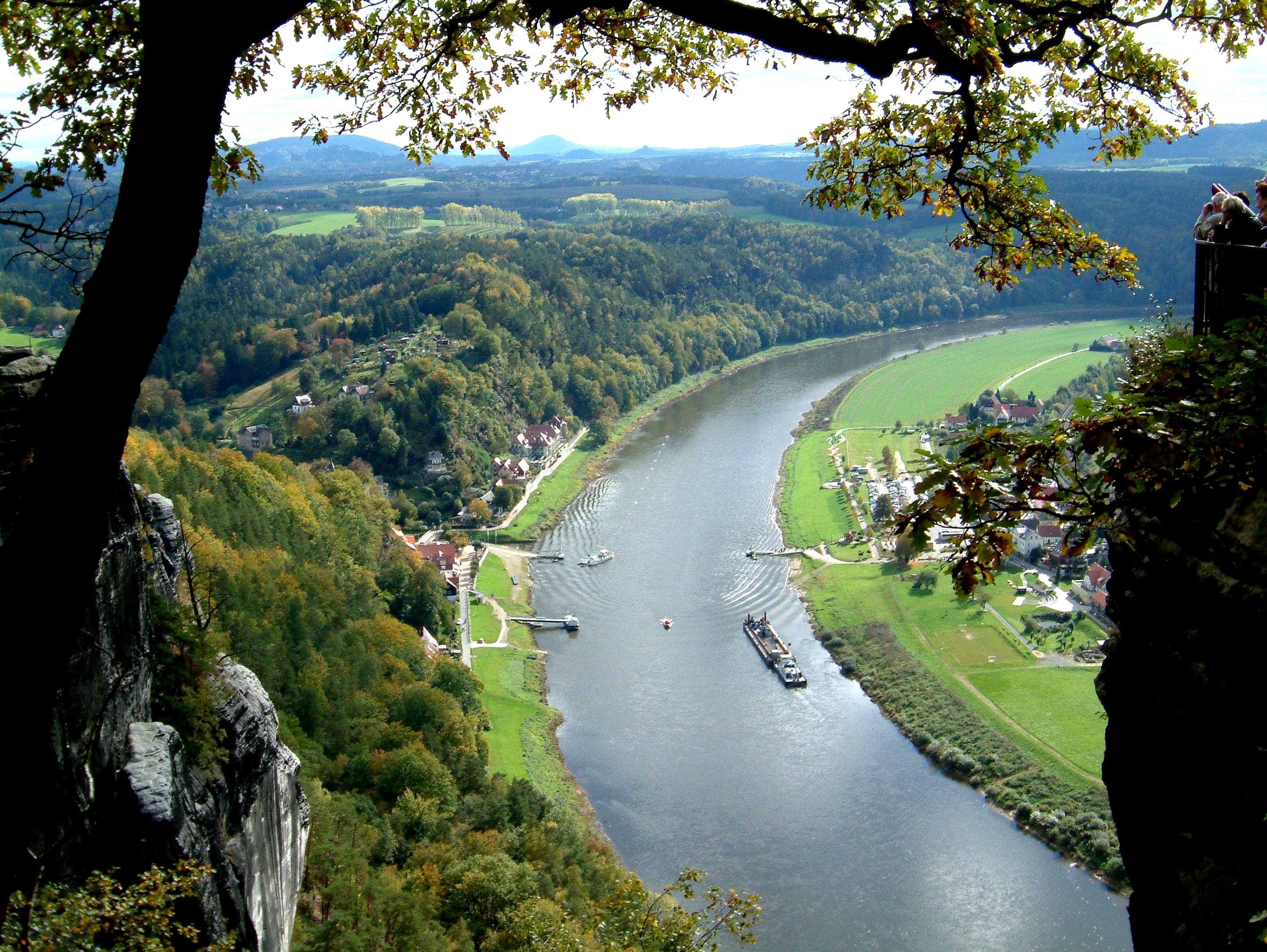 View from the Bastei cliffs towards the village of Rathen and the River Elbe, in Saxony, Germany. The Rathen ferry has just left its landing stage on the near bank, and its floating cable can be seen picked out by buoys. For more information, see the Wikipedia articles Bastei, Rathen, Elbe and Rathen Ferry.